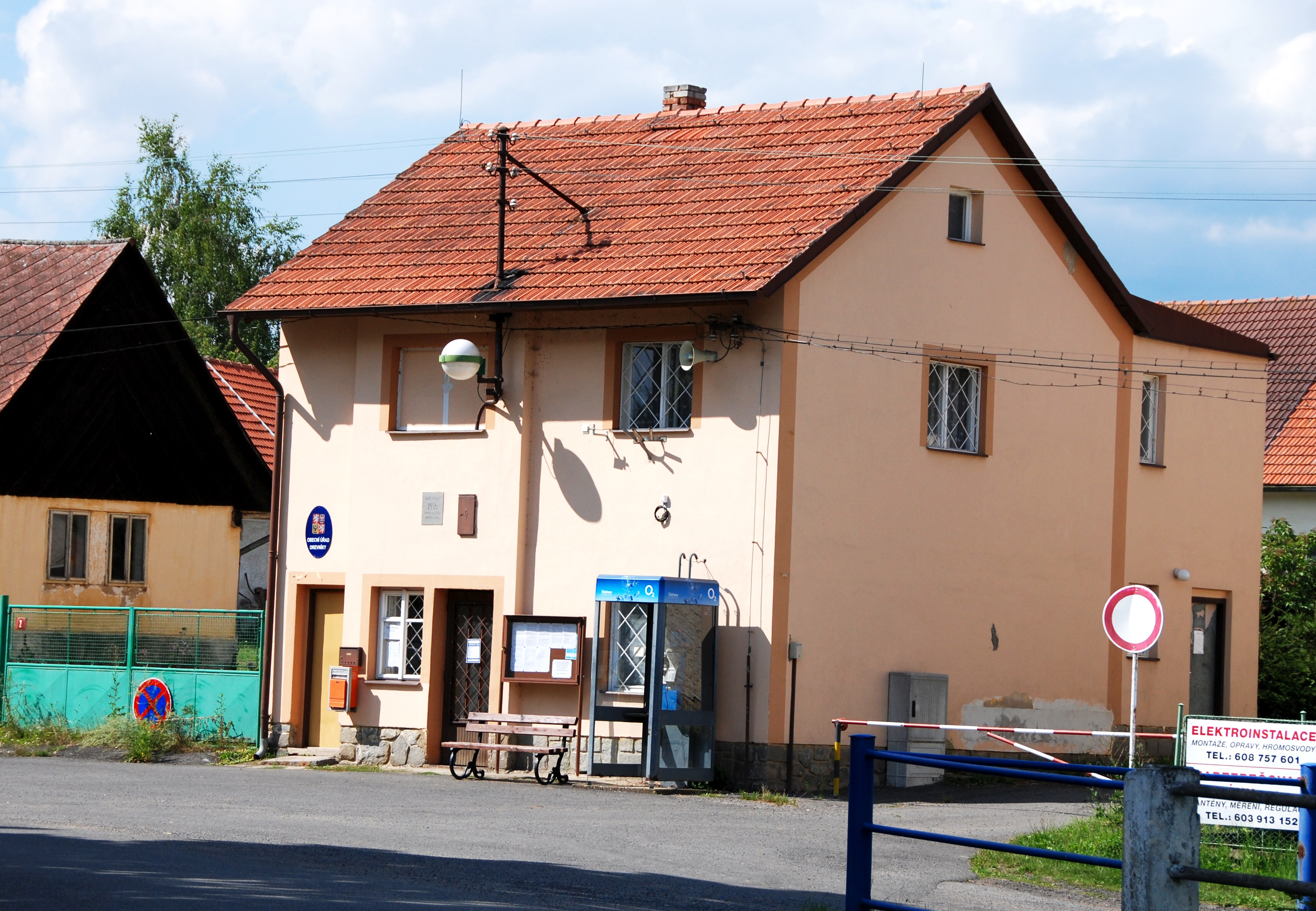 This photograph was taken within the scope of the second year of the 'Czech Municipalities Photographs' grant. Obecní úřad